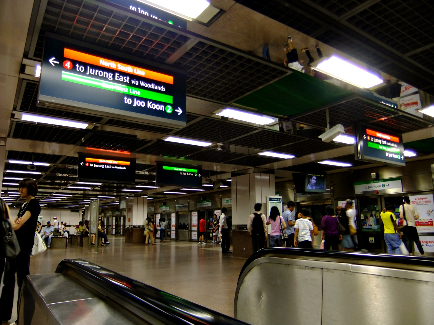 City Hall MRT Station